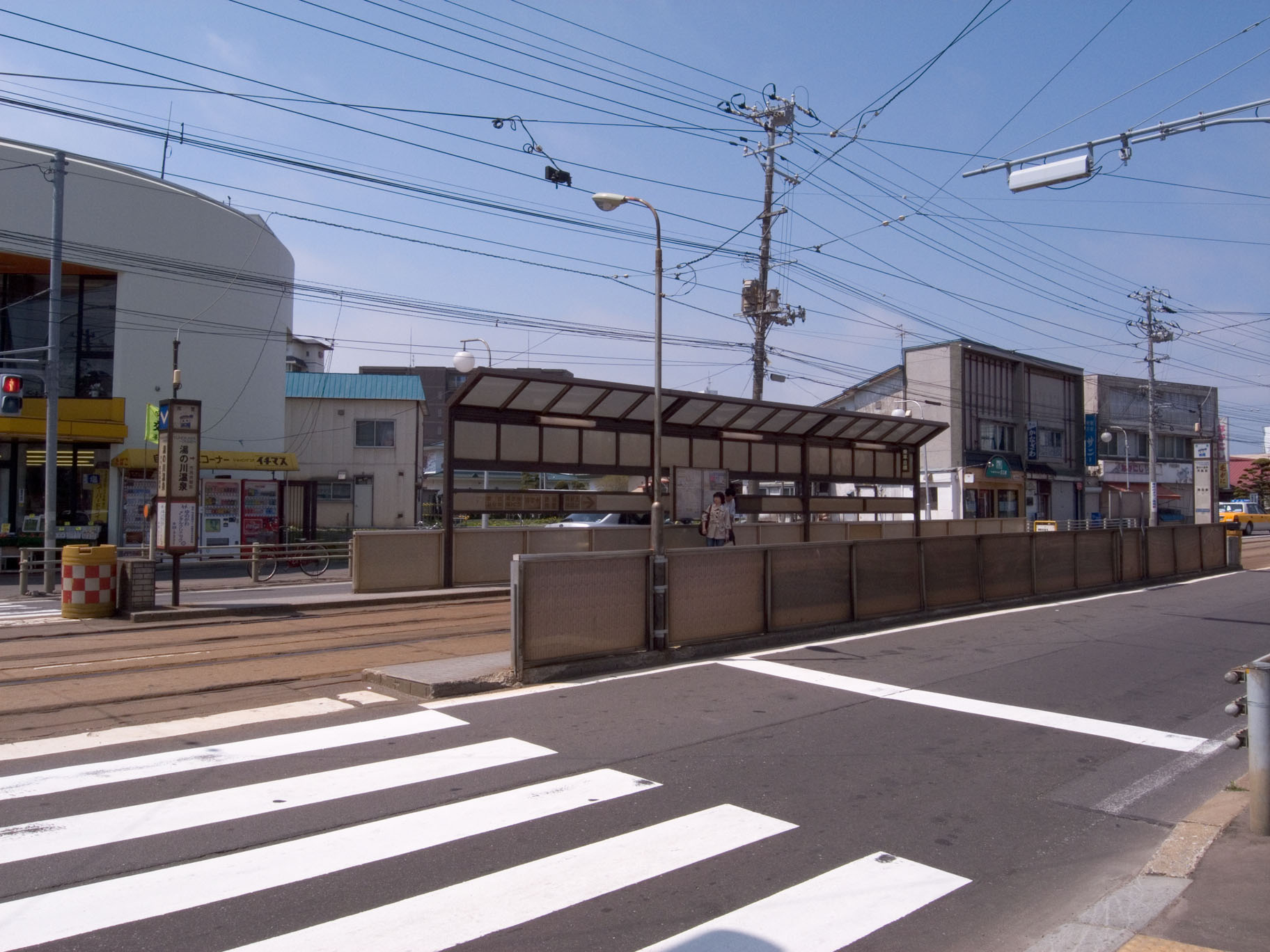 Yunokawa-onsen station in Hakodate tram, Hokkaido, Japan